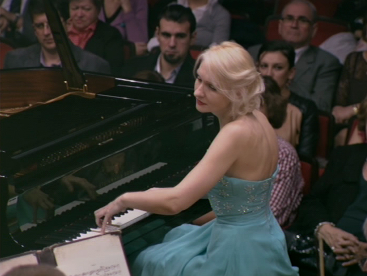 Concert of Violetta Egorova in Bucharest Phylharmony